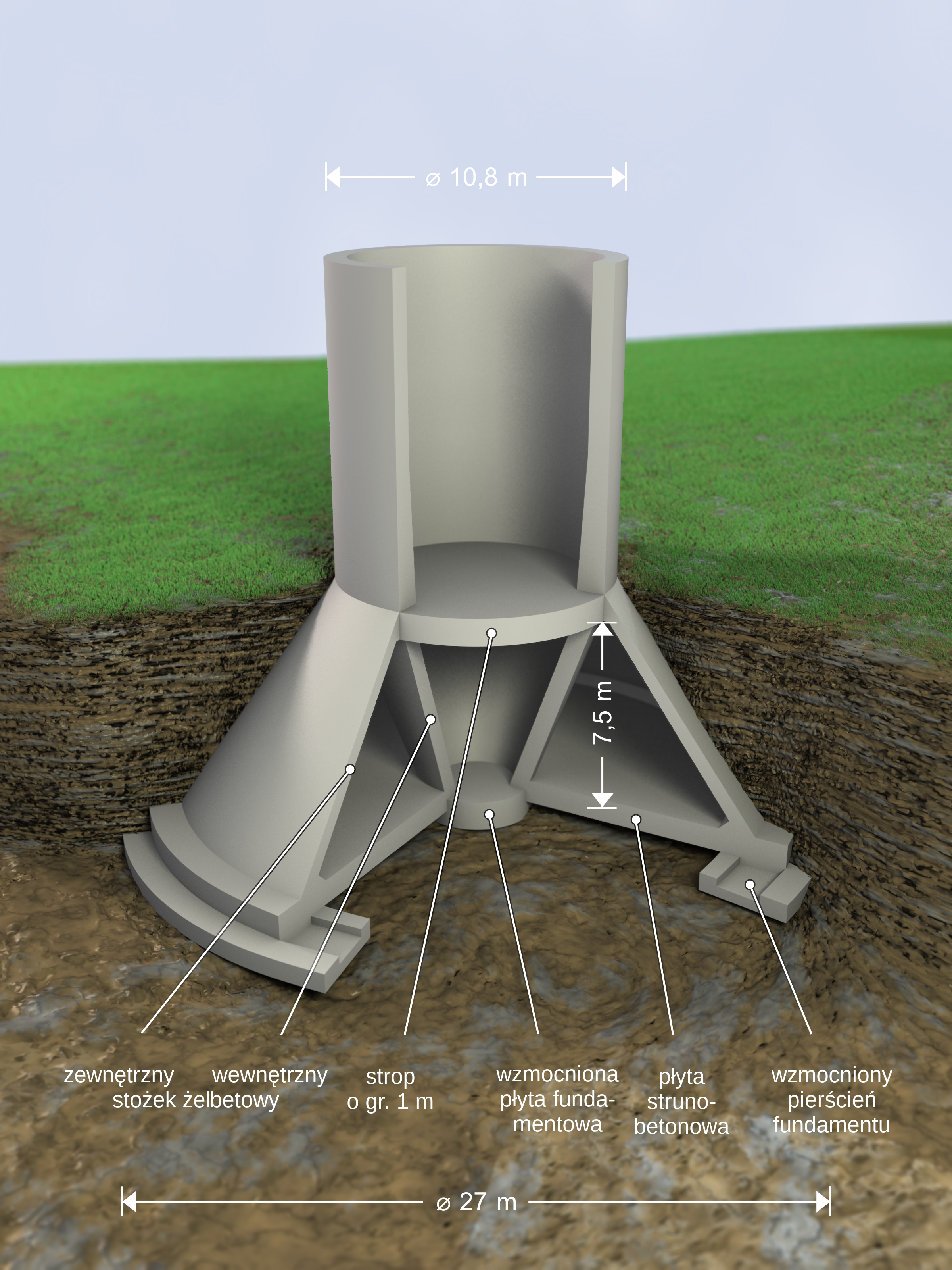 Diagram showing Foundation of the Television Tower in Stuttgart (Fernsehturm Stuttgart), weight of foundation: approximate: 1500 t with Polish description